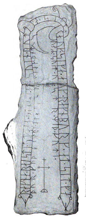 The runestone Sö 14. The inscription reads rakna * raisti * stain * þansi * at * suin * buta * sit * auk * sifa * auk * r-knburk * at * sit * faþur * kuþ * hil[b]i * at * [hat]s * uit * iak * þet * uaR * sui- * uestr * miþ * kuti. In English "Ragna raised this stone in memory of Sveinn, her husbandman, and Sæfa and Ragnbjôrg in memory of their father. May God help his spirit. I know that Sveinn was in the west with Gautr/Knútr."